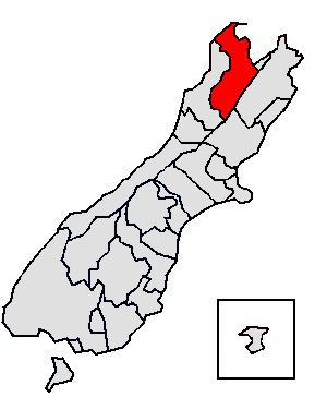 Locator Map of Tasman Disctrict Council, New Zealand